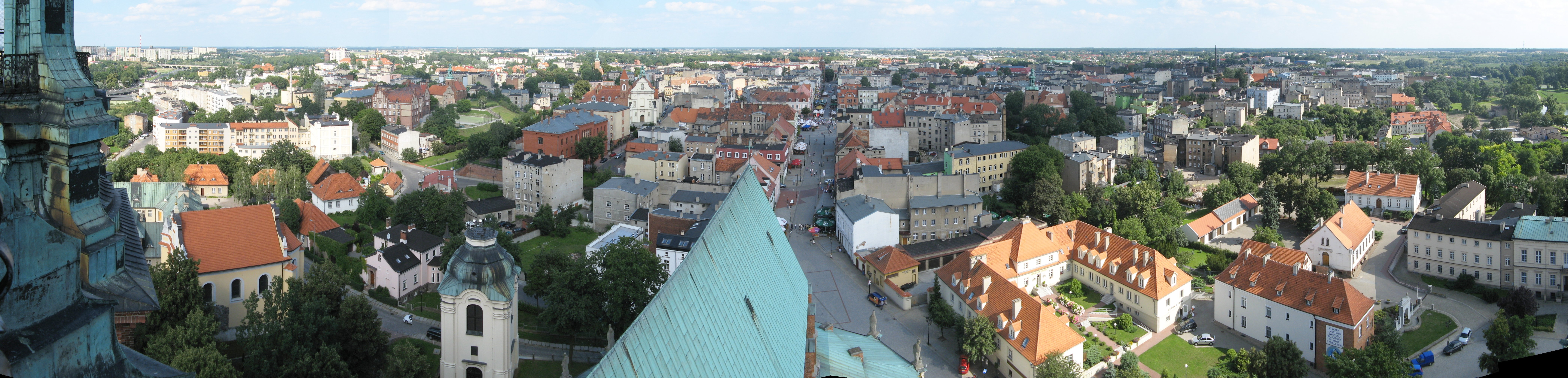 Gniezno from the cathedral. Composed of 10 snaps using program hugin.